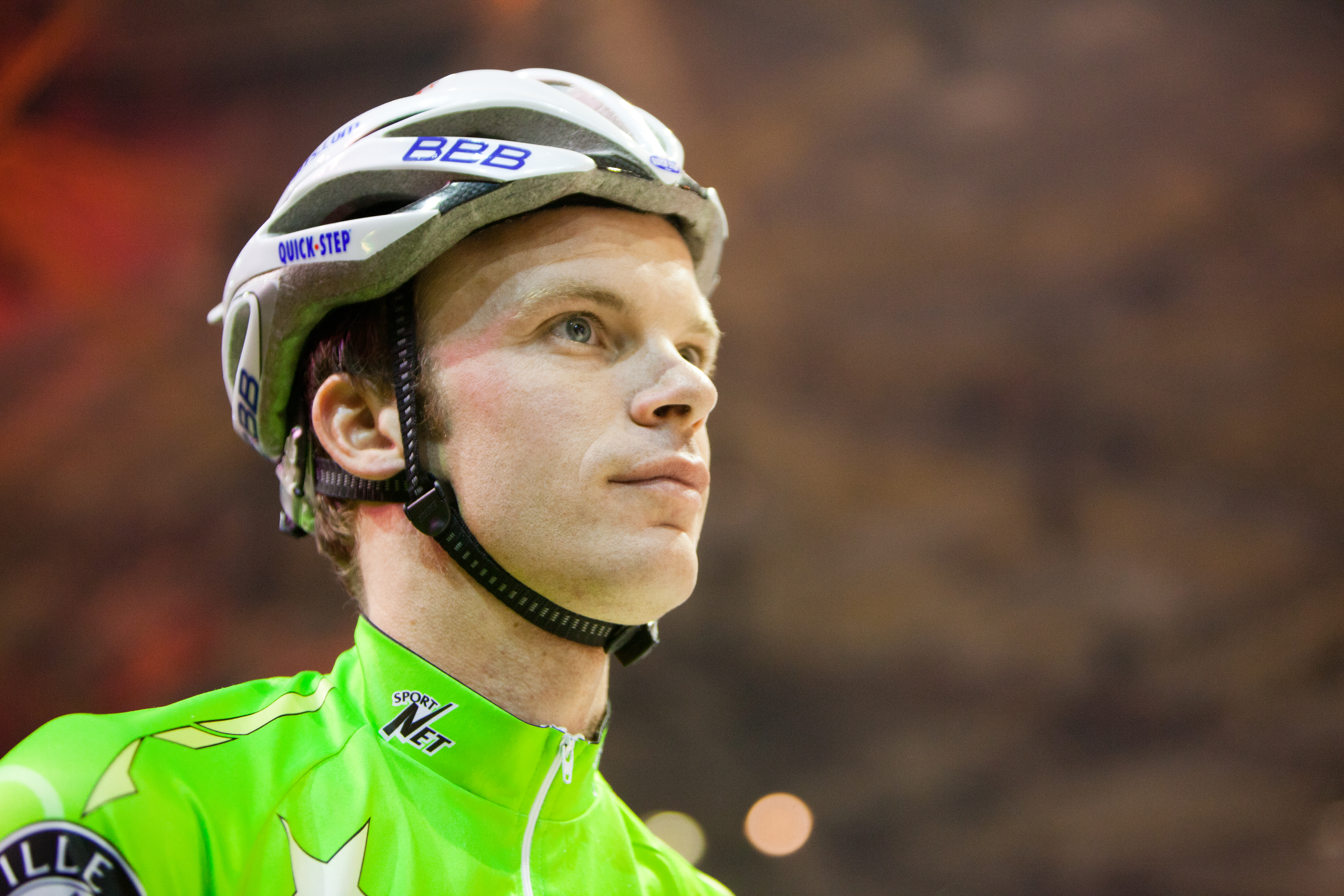 The making of this document was supported by Wikimedia CH. (Submit your project!) For all the files concerned, please see the category Supported by Wikimedia CH. Six jours de Grenoble 2011